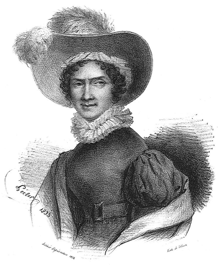 Portrait of the French midwife Marie-Louise Dugès ("Madame Lachapelle", "Marie Lachapelle") (1769-1821), ("the mother of modern obstetrics").